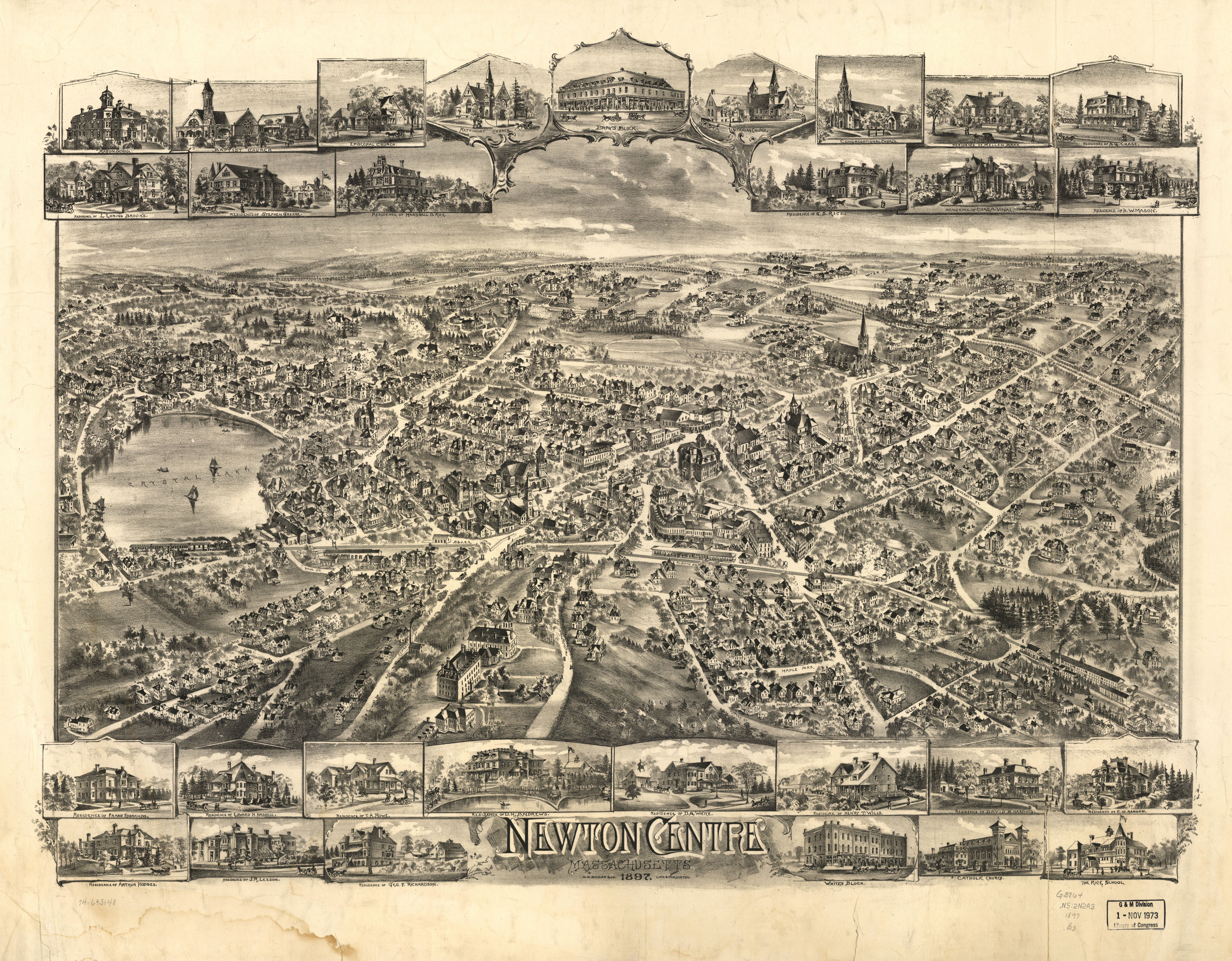 1897 bird's eye view of Newton Centre, Massachusetts, from the Library of Congress.